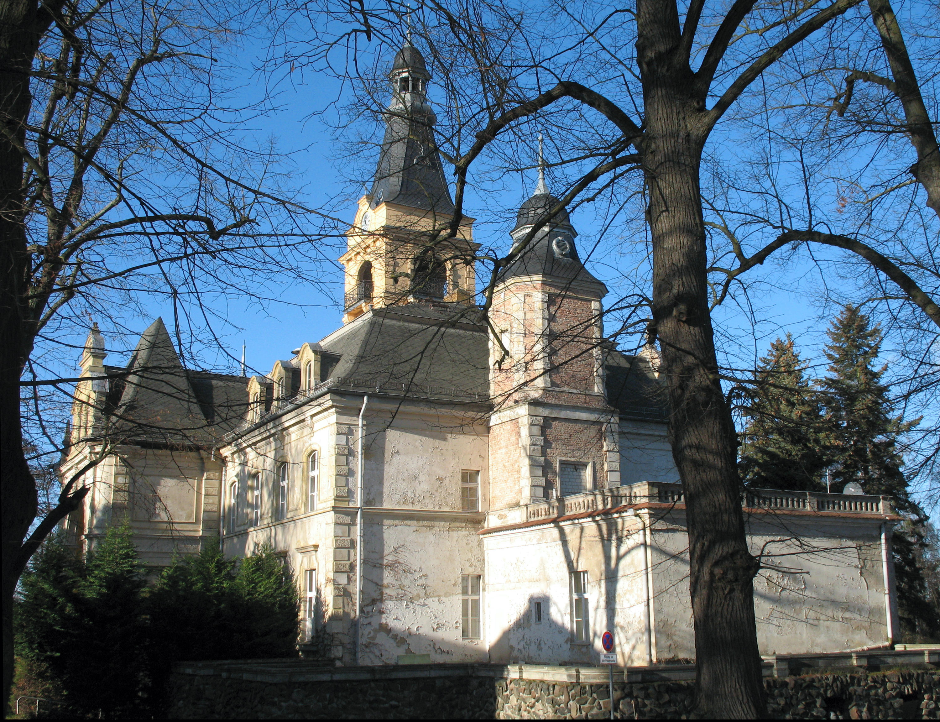 Castle in Stahnsdorf-Güterfelde in Brandenburg, Germany